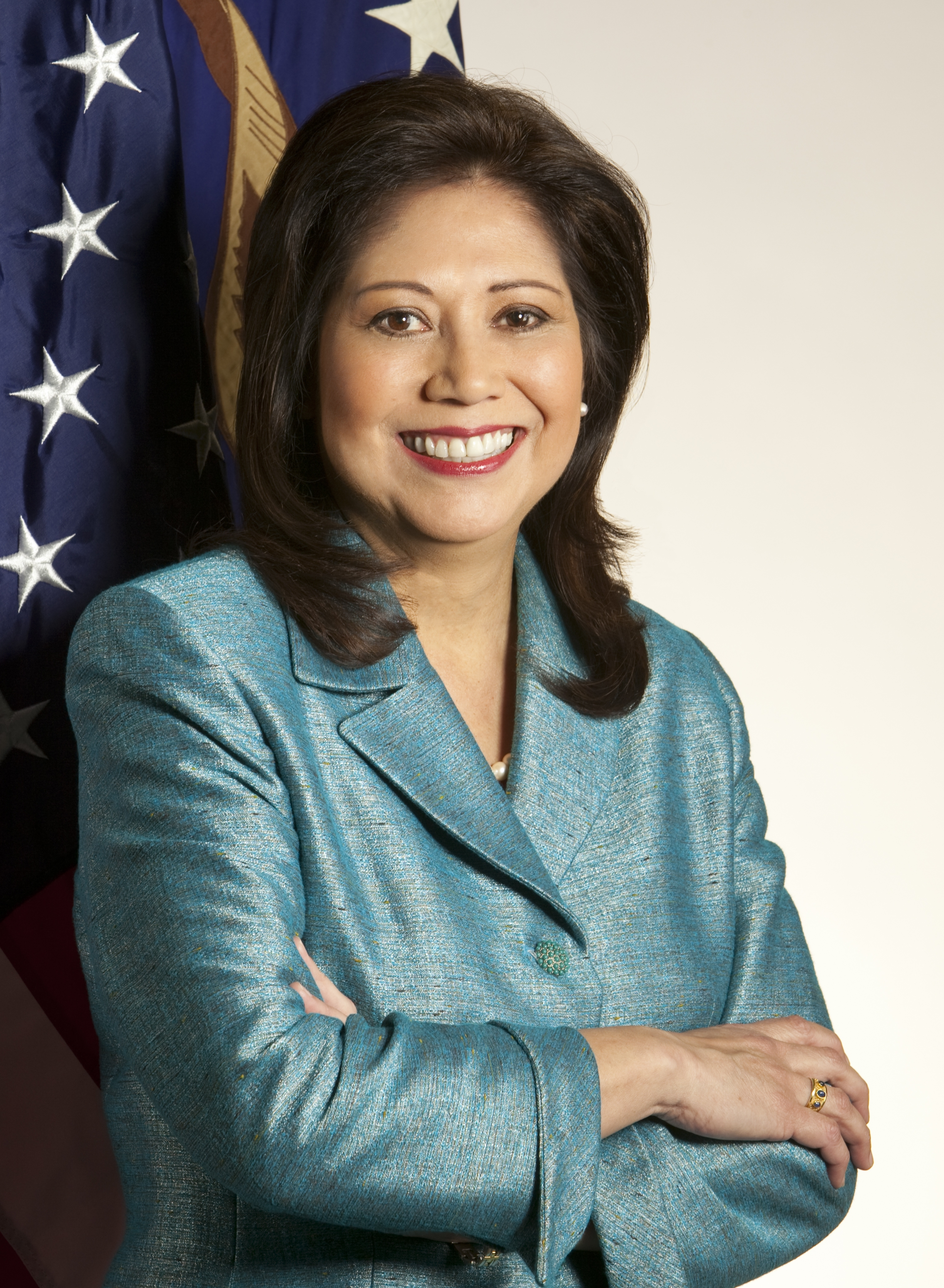 Official portrait of Secretary of Labor Hilda Solis.